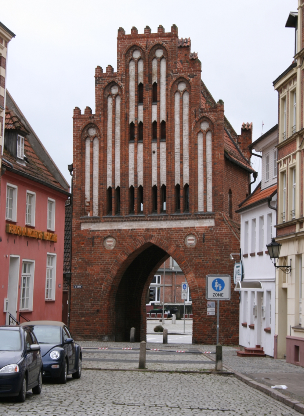 The last existing city gate at Wismar, the "Wassertor"